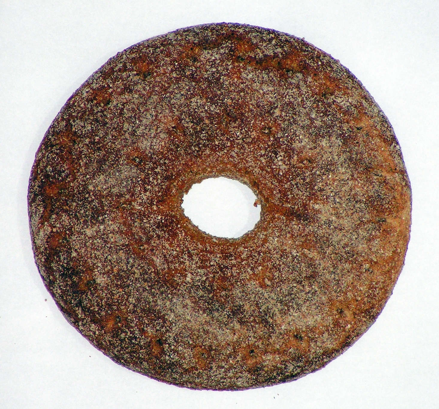 Reikäleipä (finnish traditional bread with the hole in center): a view from above